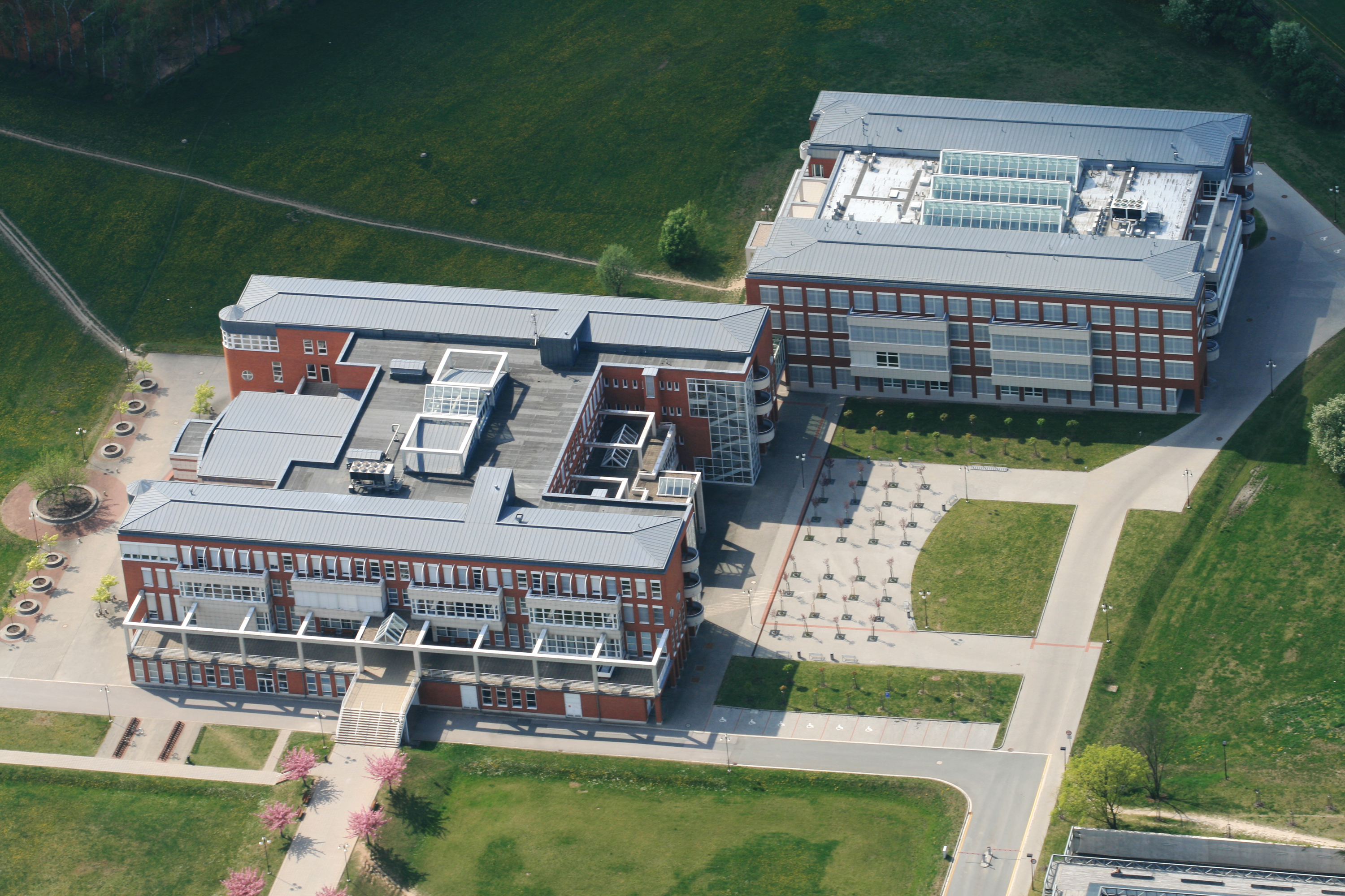 University library of town Hradec Králové from air, eastern Bohemia, Czech Republic